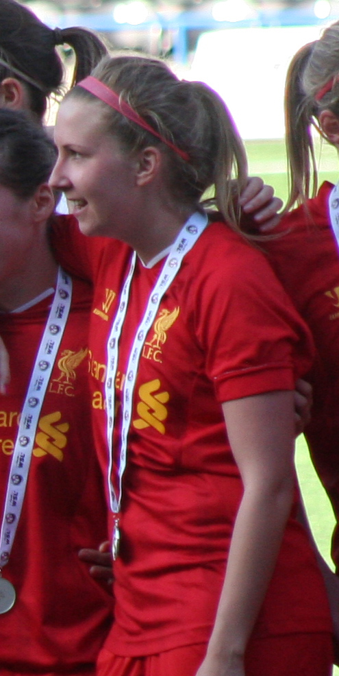 Liverpool L.F.C. - 2013 FA WSL Championship celebration